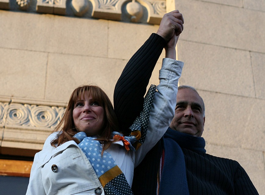 Zaruhi Postanjyan and Rafii Hovahnnisyan during after presidential election protest in Yerevan.